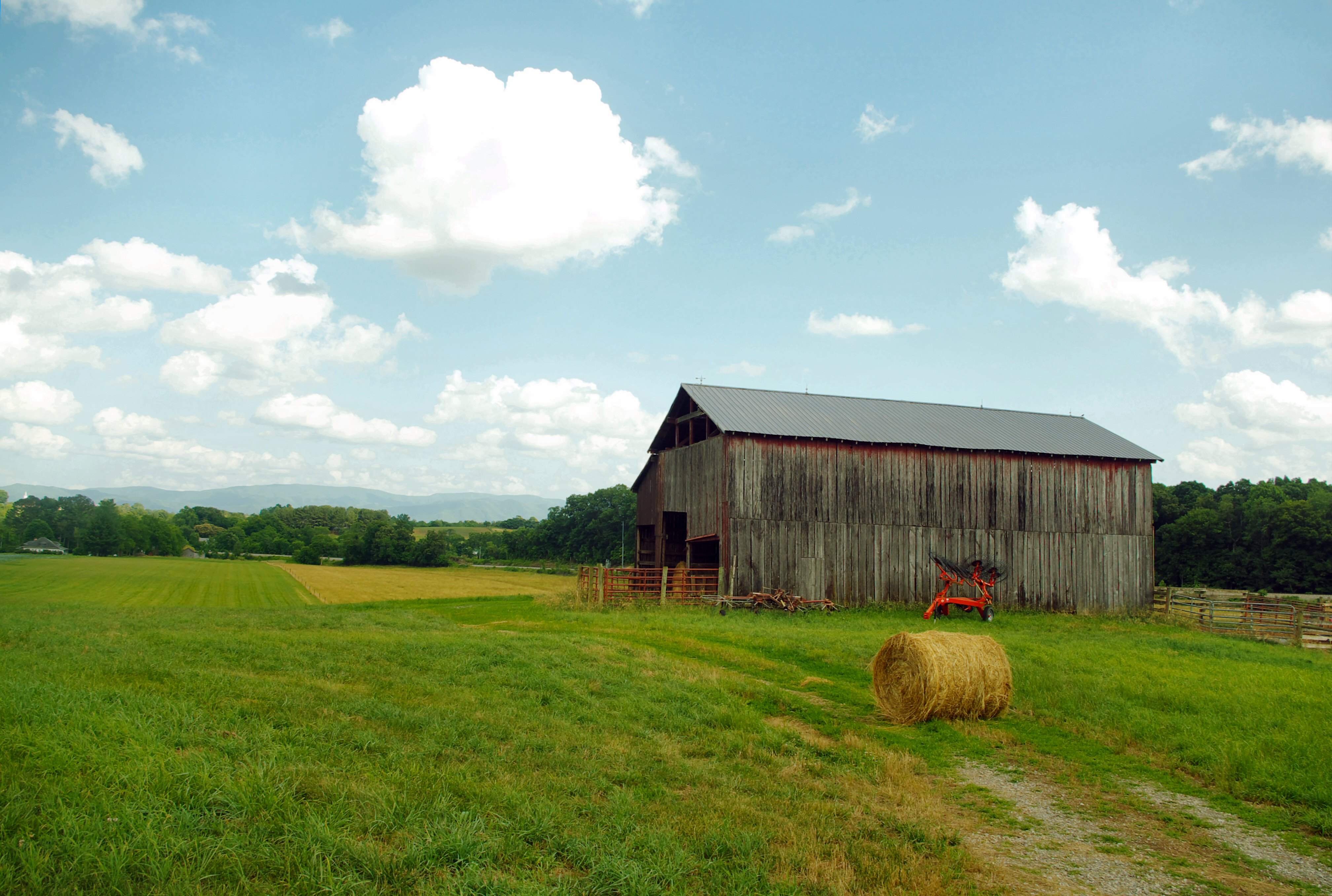 Barn and farm fields near Limestone in Washington County, Tennessee, United States.